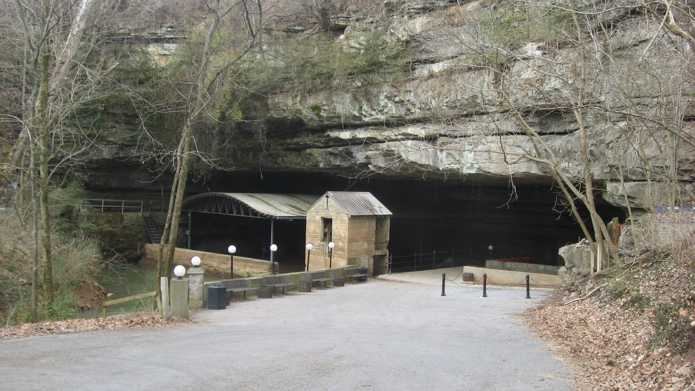 Entrance to Lost River Cave, located off Nashville Road (U.S. Route 31) in Bowling Green, Kentucky, United States. A significant archaeological site and tourist attraction, it is listed on the National Register of Historic Places.